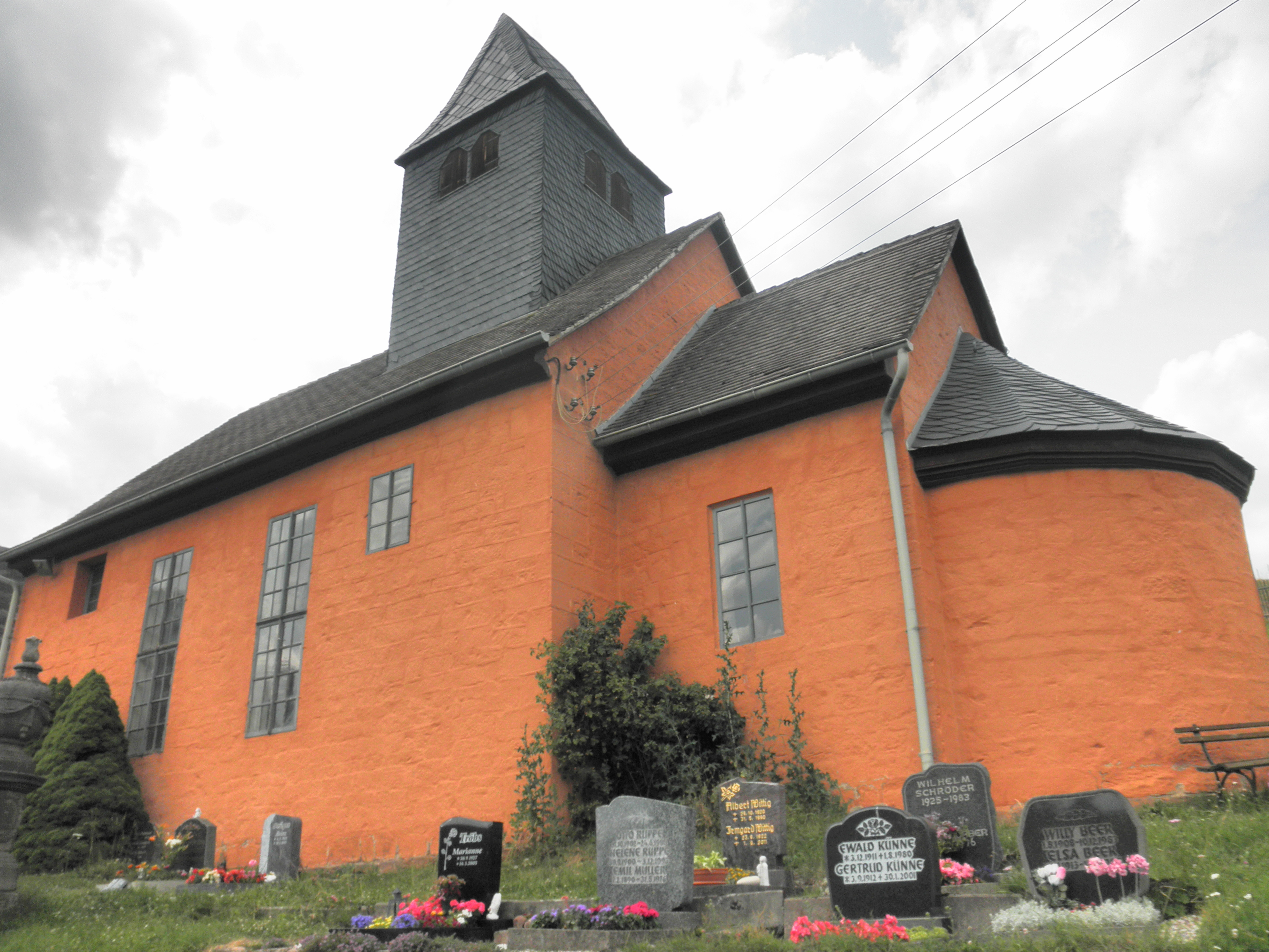 Church in Stanau in Thuringia